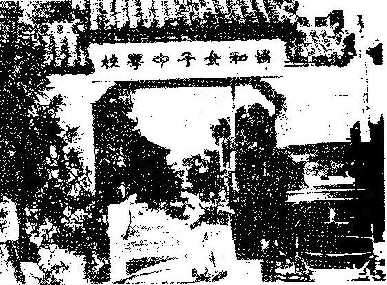 The old school gate of Xiehe High School